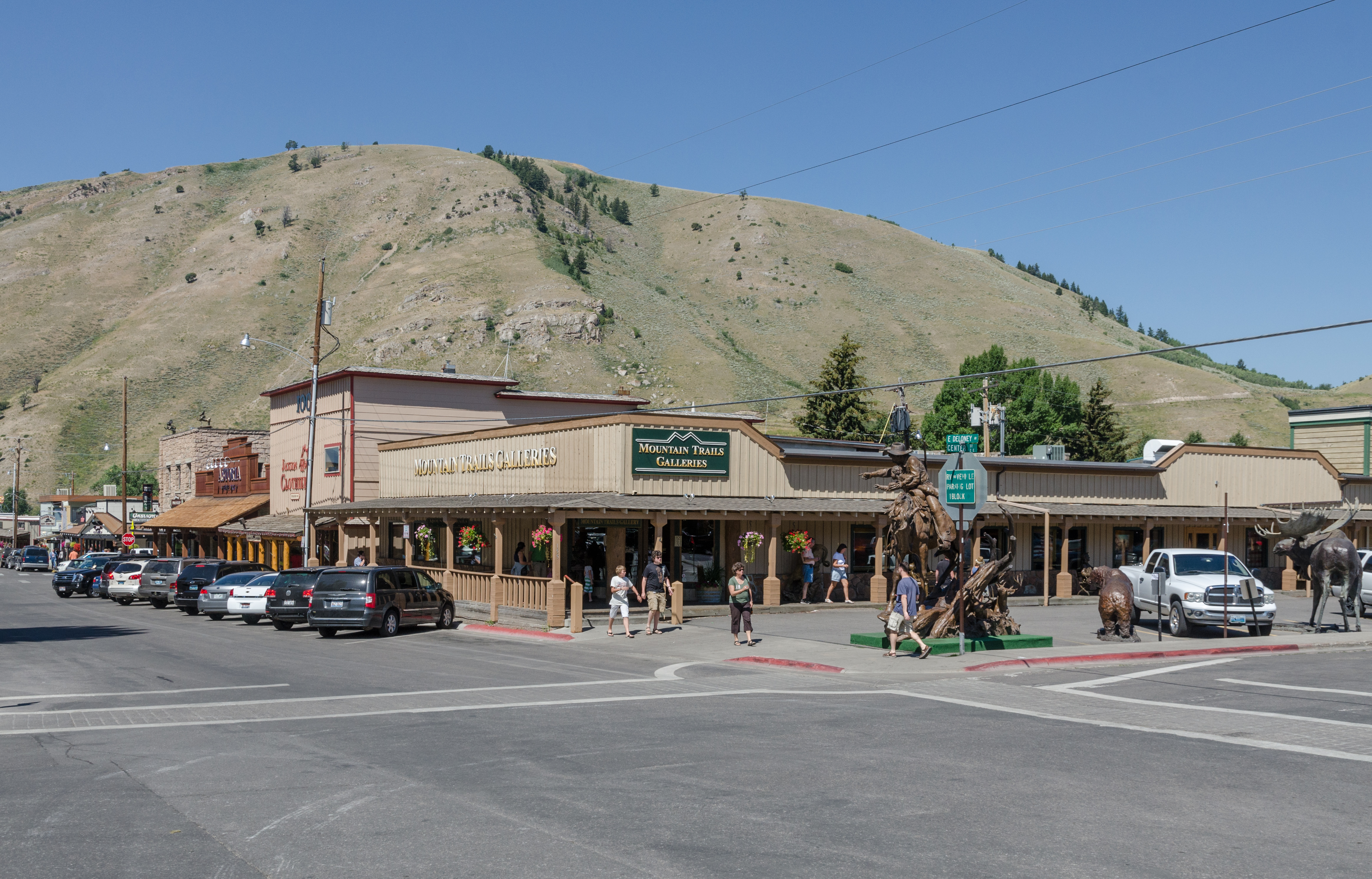 Buildings in Jackson, Wyoming, located at the crossing of Deloney Avenue and Center Street